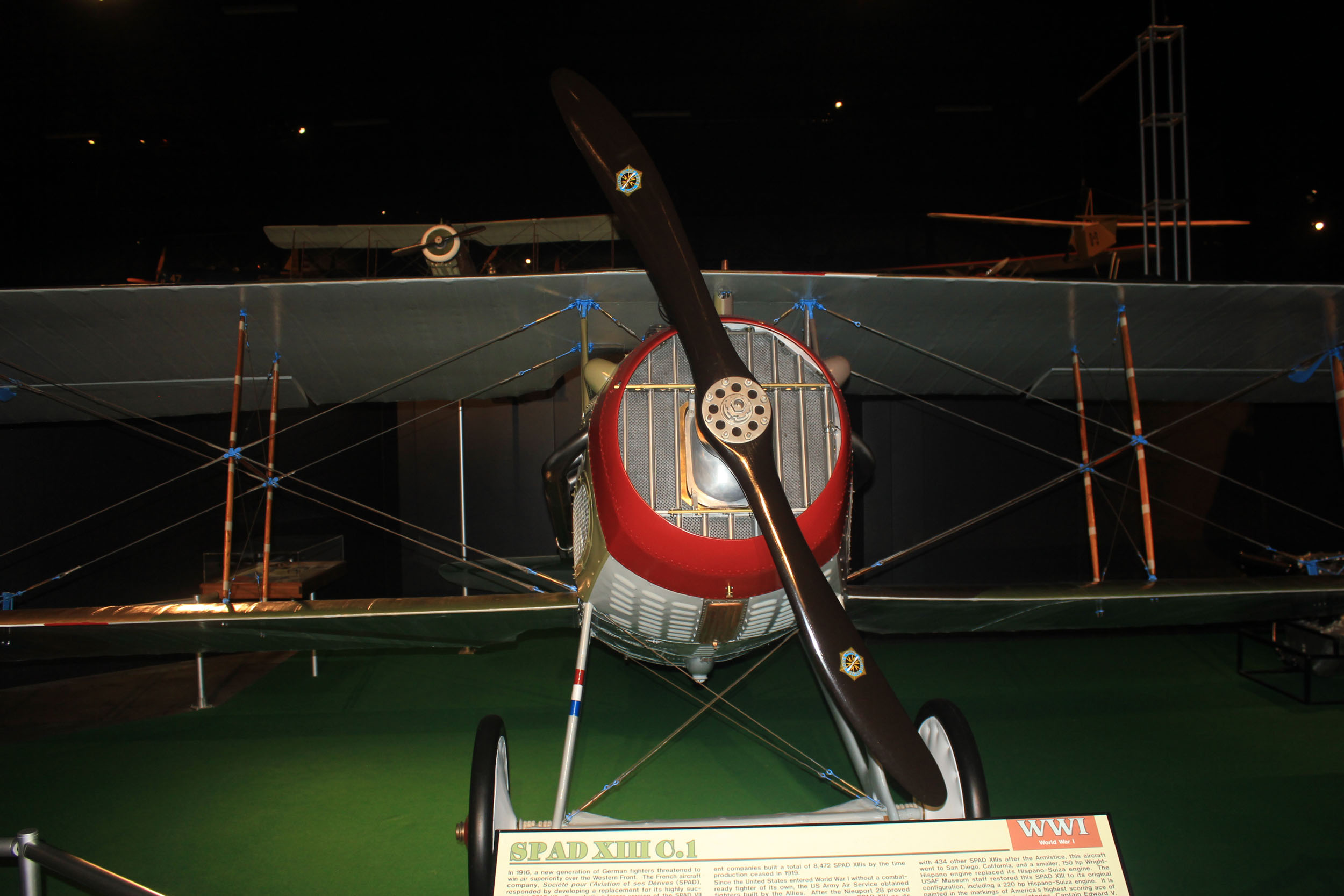 Fighters, bombers, support planes, and more The French response to new German aircraft during WWI